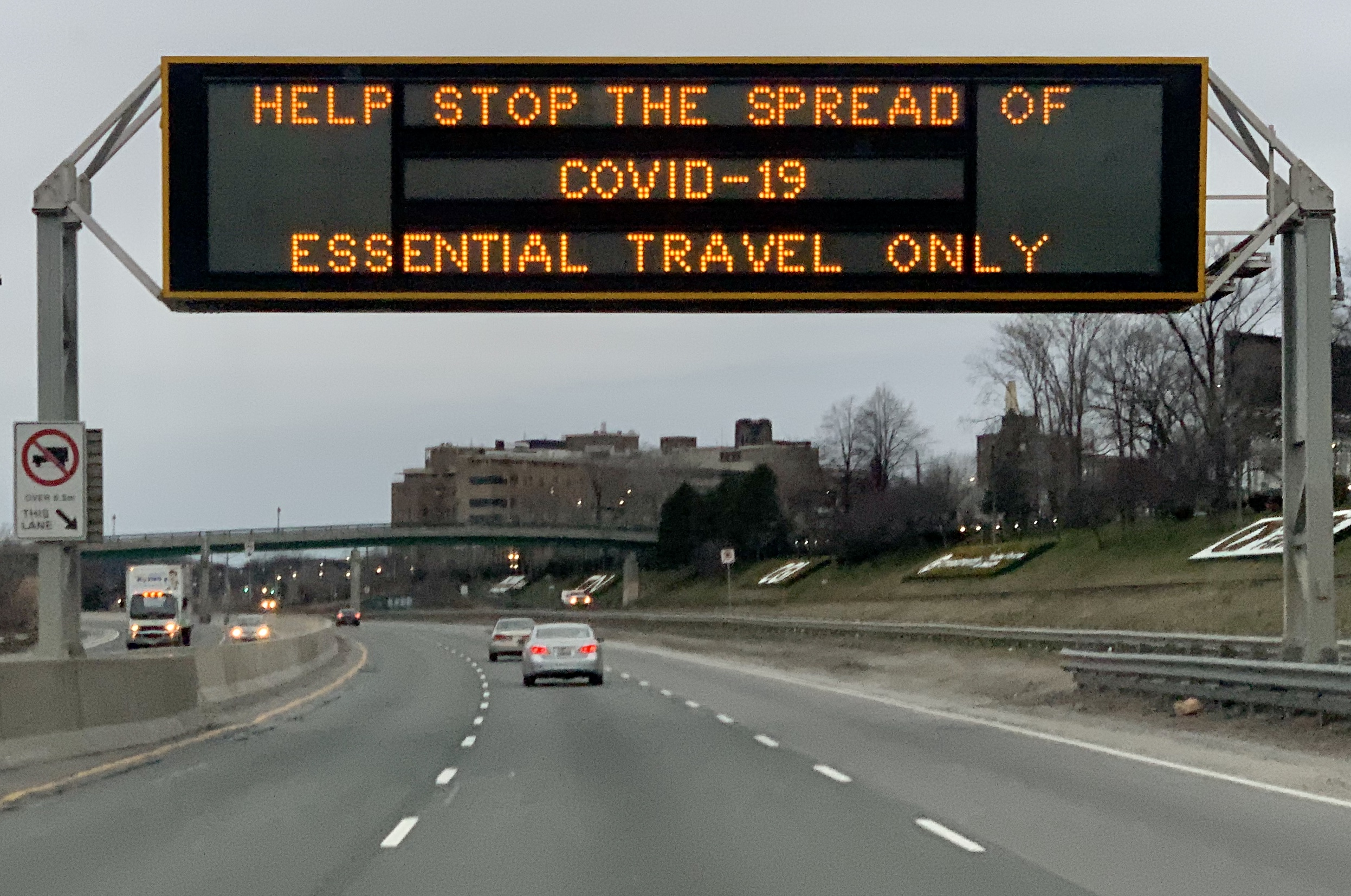 COVID-19 highway sign in Toronto, March 2020